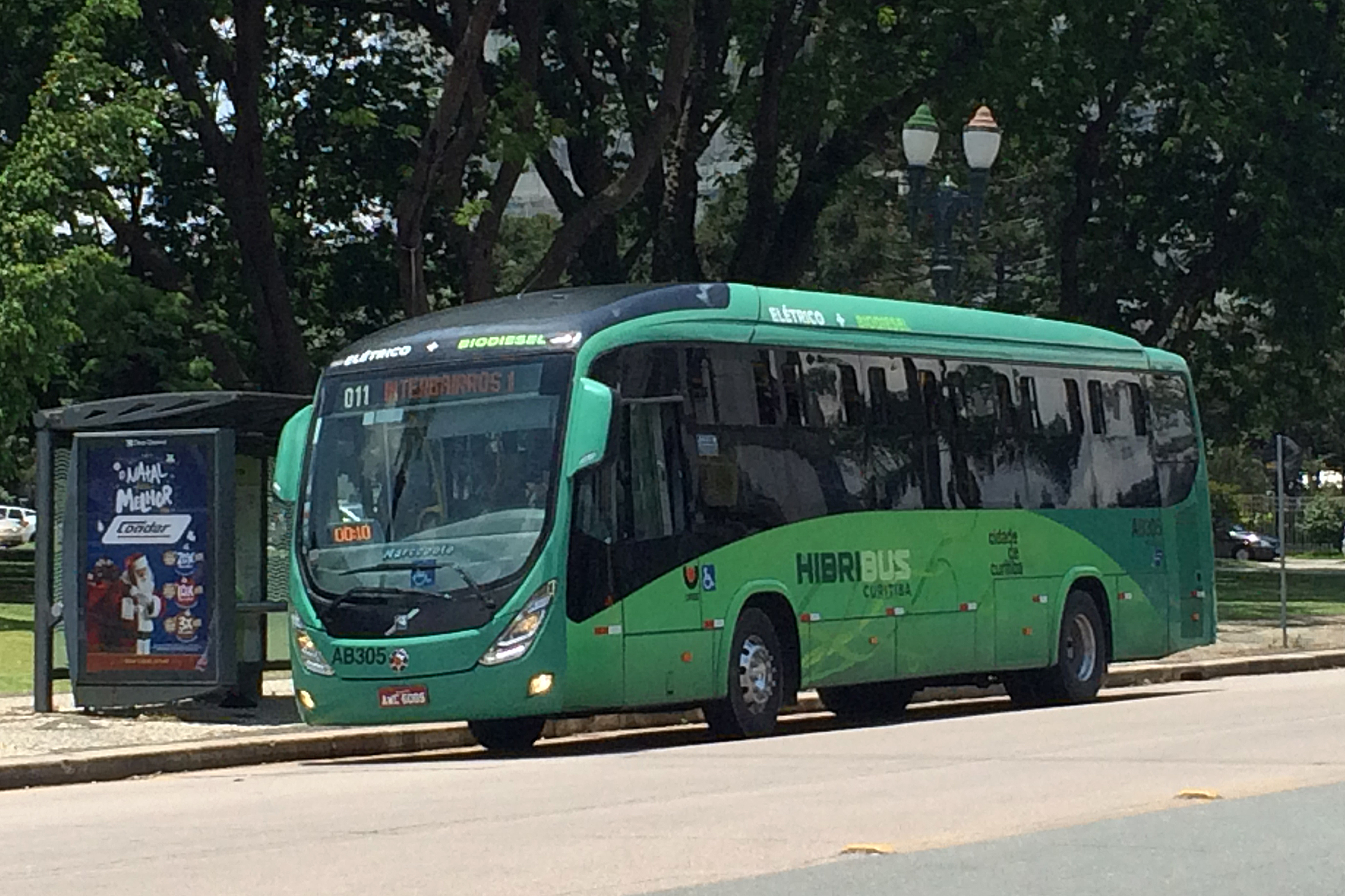 Hybrid biodiesel-electric bus in Curitiba, Brazil